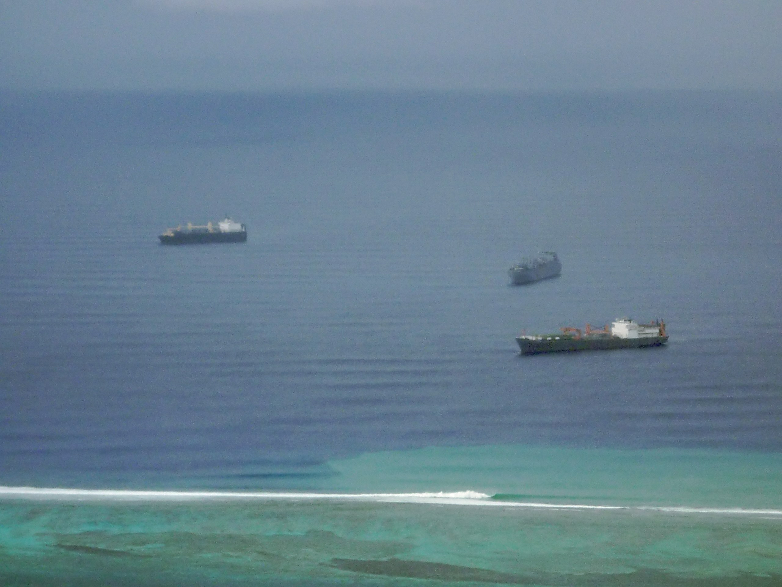 Unidentified United States Navy Military Sealift Command maritime prepositioning ships anchored off the coast of Saipan.